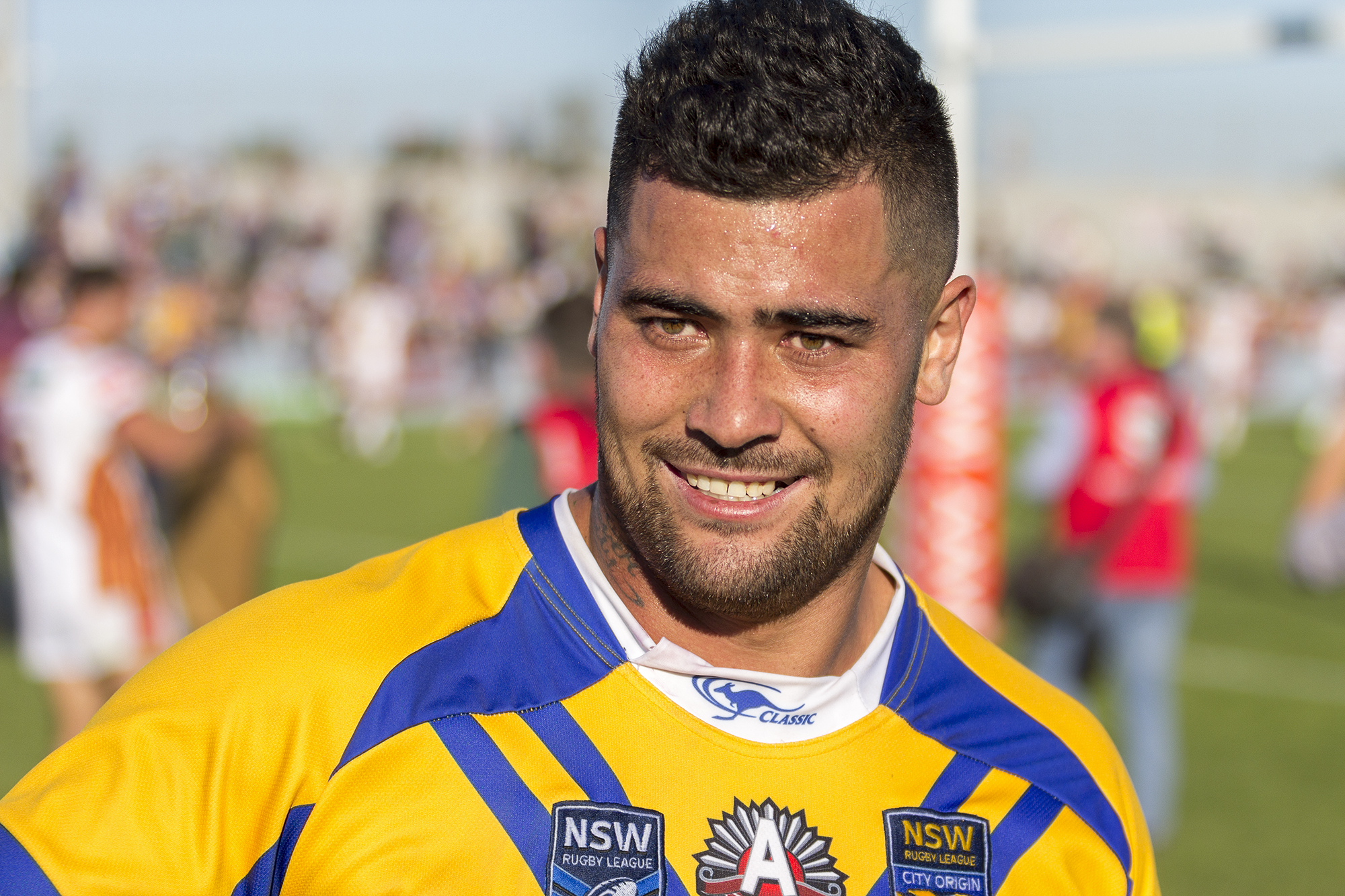 Andrew Fifita playing for City in the City vs Country Origin game at McDonalds Park in Wagga Wagga.